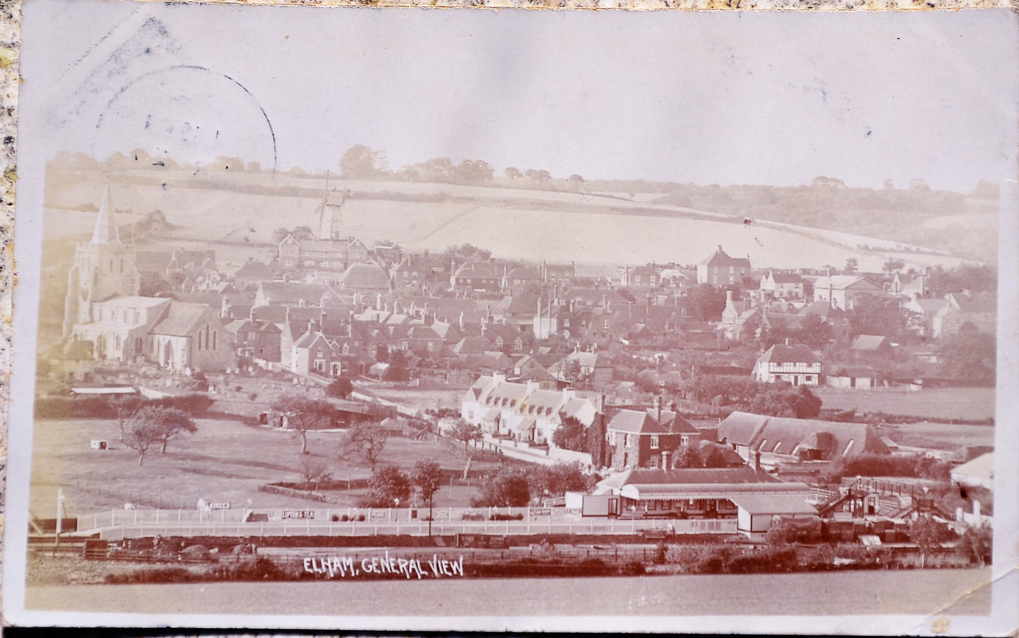 Postcard showing a general view of Elham, Kent. Elham station in foreground, tithe barn at right, church to left and White Mill toward top left.